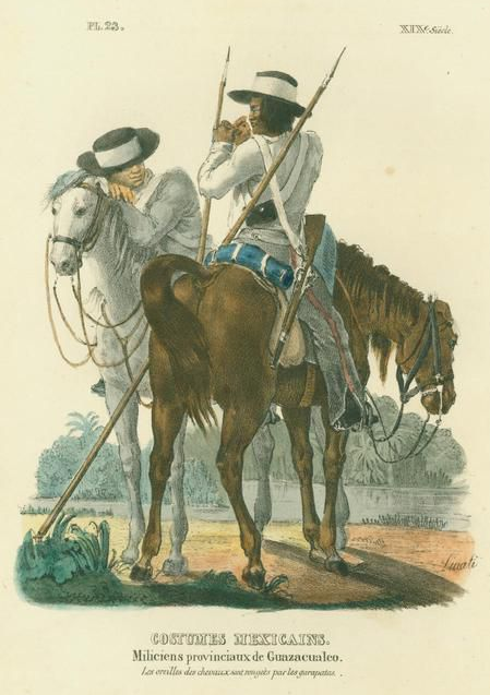 Miliciens provinciaux de Guazacualco from the book Costumes civils, militaires et réligieux du Mexique (Belgium, 1828)